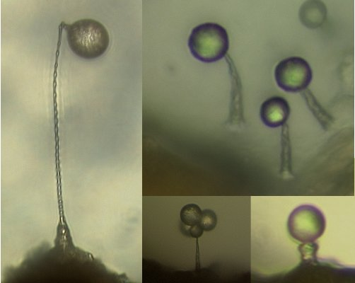 Images of fruiting bodies of several protosteloid amoebae. Clockwise from left: Endostelium zonatum, Schizoplamodiopsis vulgare, Cavostelium apophysatum, and Echinosteliopsis oligospora.